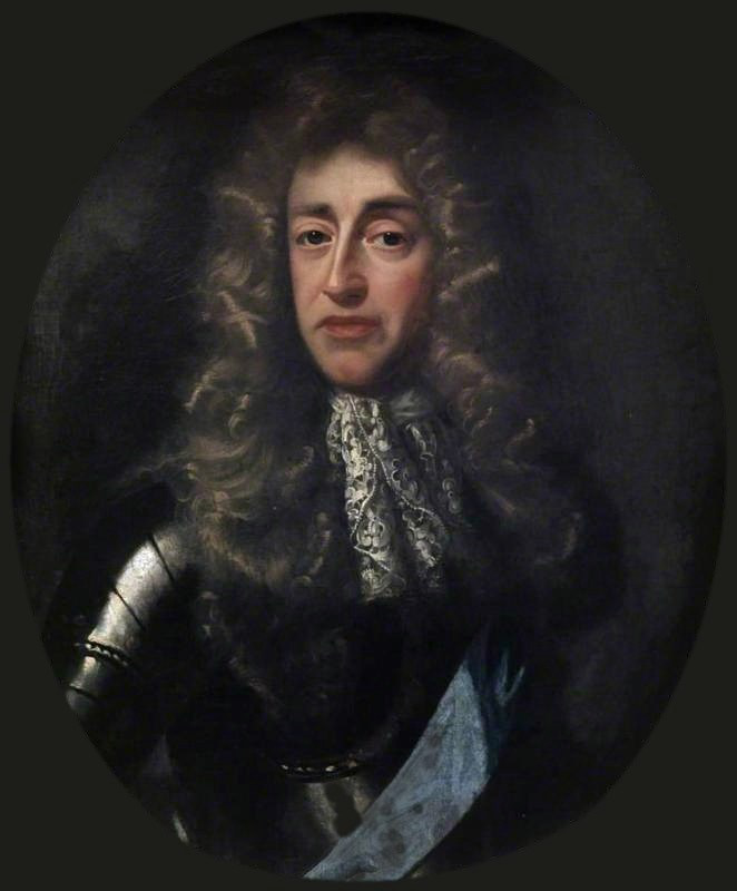 James II of England, then Duke of York by John Riley.